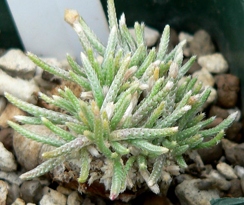 Photo of Anacampseros alsonii (Syn. Avonia quinaria subsp. alstonii) at the University of California Botanical Garden